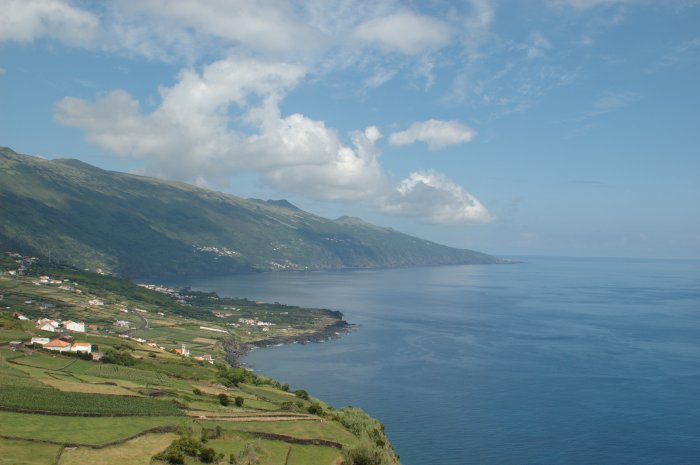 Ribeiras is a parish in the district of Lajes do Pico in the Azores.